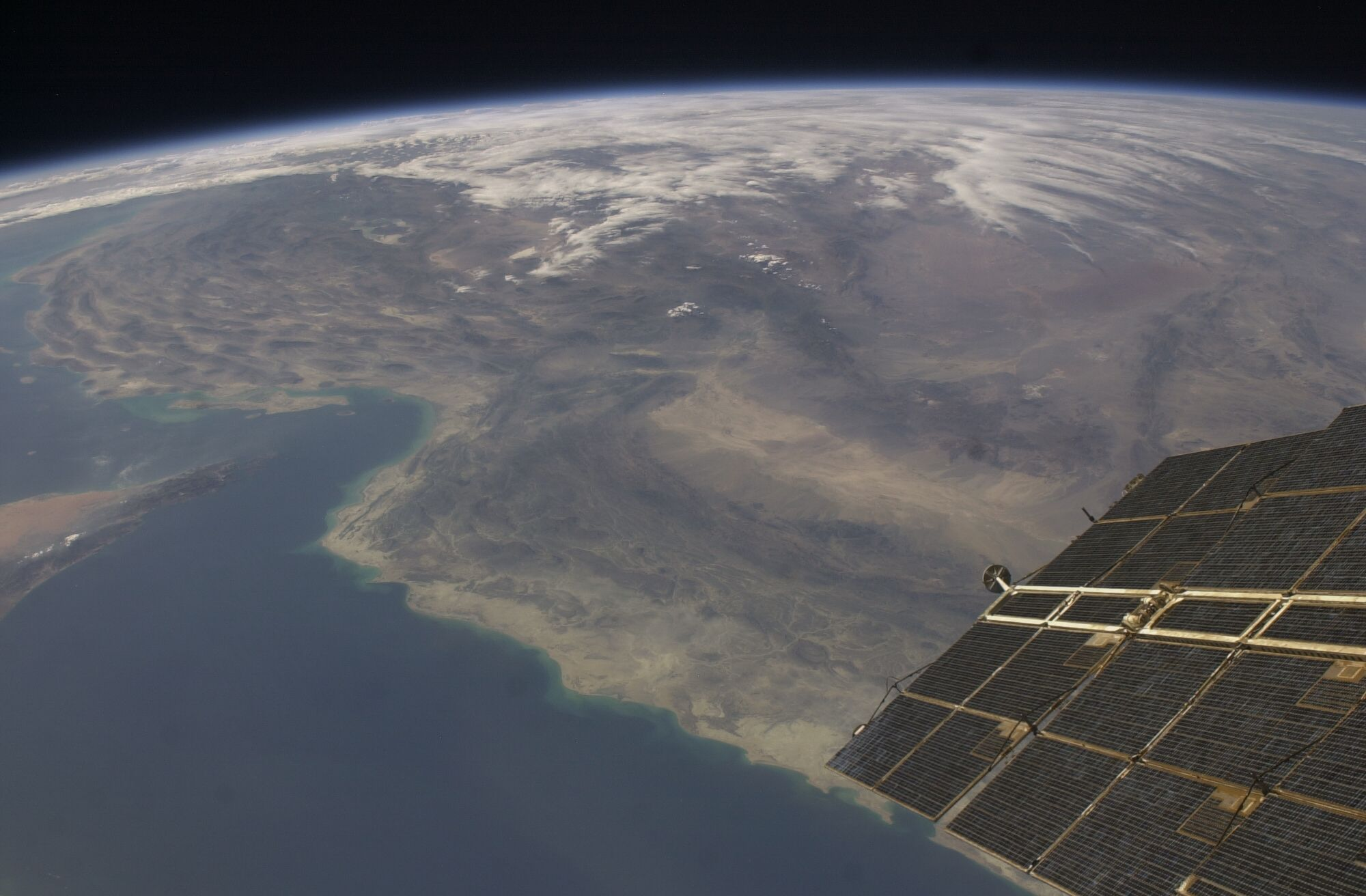 Makran and Jaz Murian from space